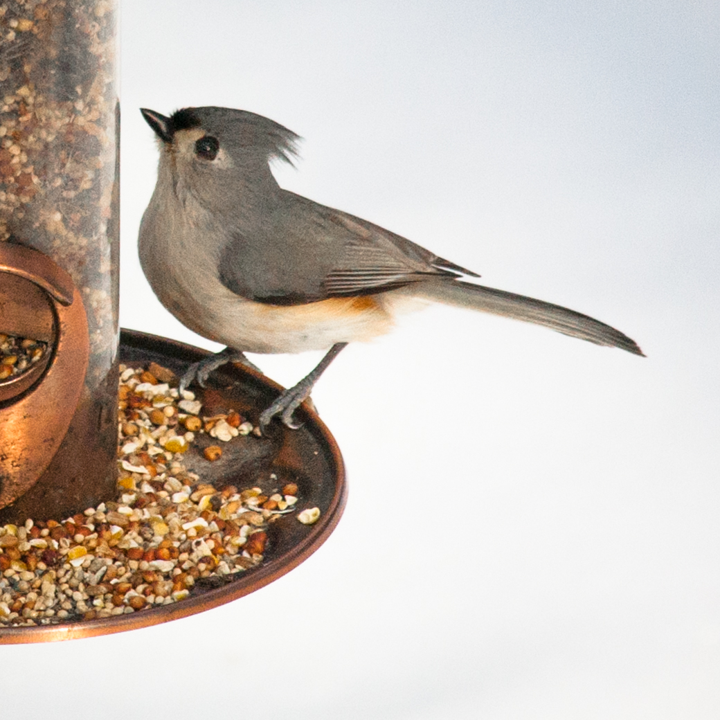 Nothing special here. Just thought it looked cute. Again the snow cover gives the white background.